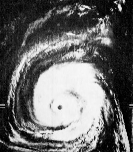 Hurricane Gladys photographed by NASA's Nimbus I satallite sometime in September 1964.